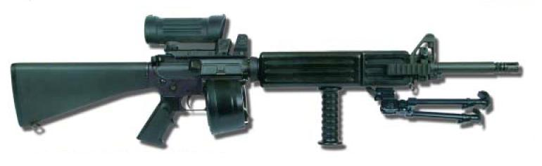 Danish LSV (Light Support Weapon) M/04 with optical sightDansk: LSV (Let Støtte Våben) M/04 med påmonteret optisk sigte